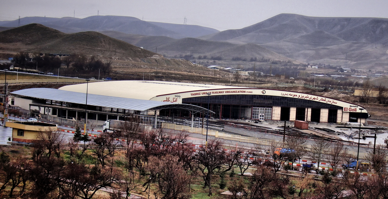 Tabriz Urban Railway Organization (TURO), El Goli Station, Iran, Tabriz